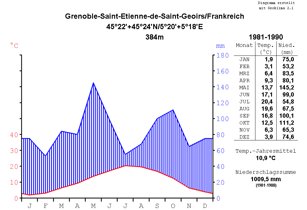 climate chart of Saint-Etienne-de-Saint-Geoirs near Grenoble, France, for the period of time from 1981 to 1990, in the format by Walter and Lieth, metric, °Celsius and millimeters, chart made with Geoklima 2.1, label in German